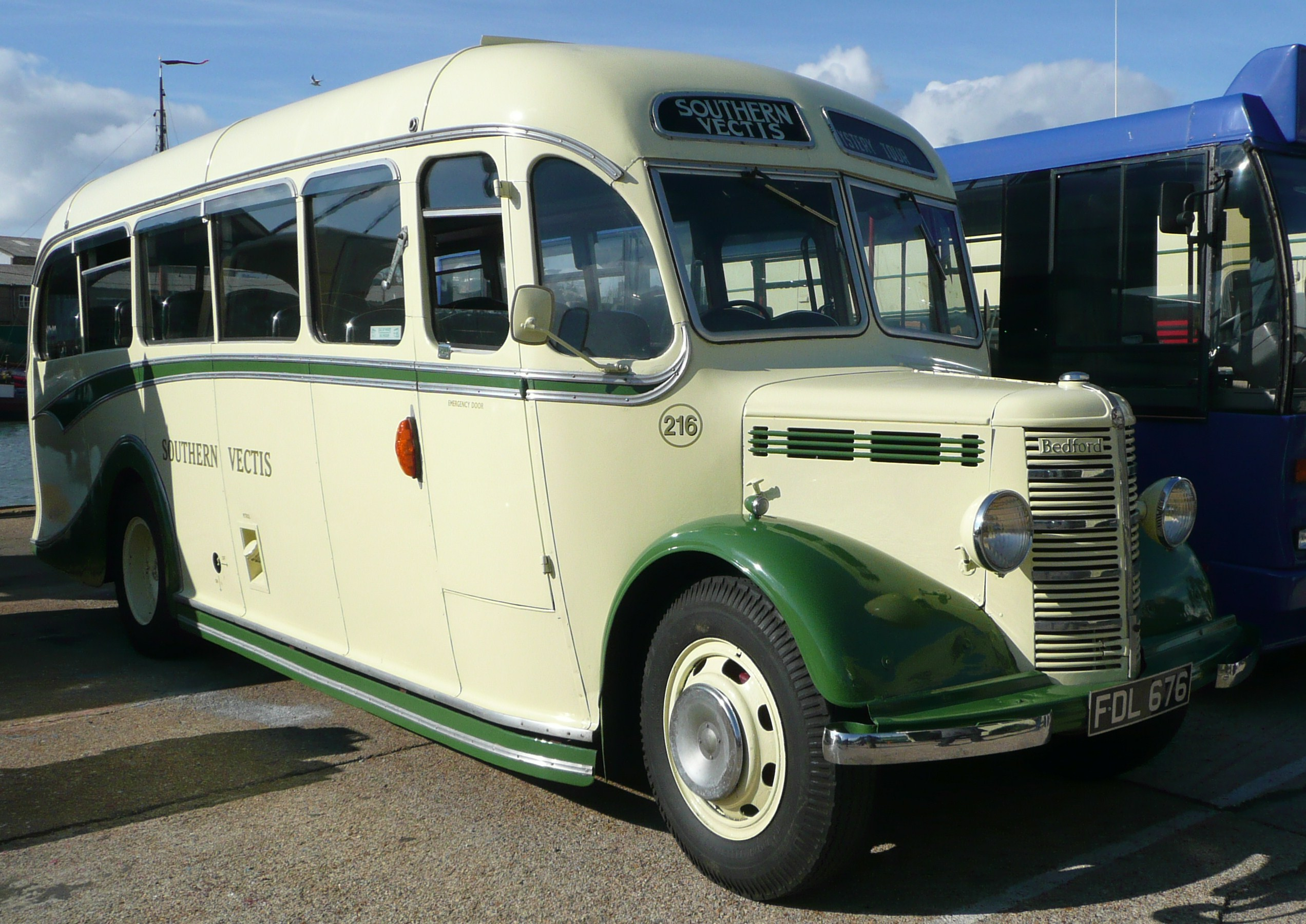 Preserved Southern Vectis 216 (FDL 676), a Beford OB, at the 2008 Isle of Wight bus museum running day, on Newport Quay. The bus is now owned by the museum.